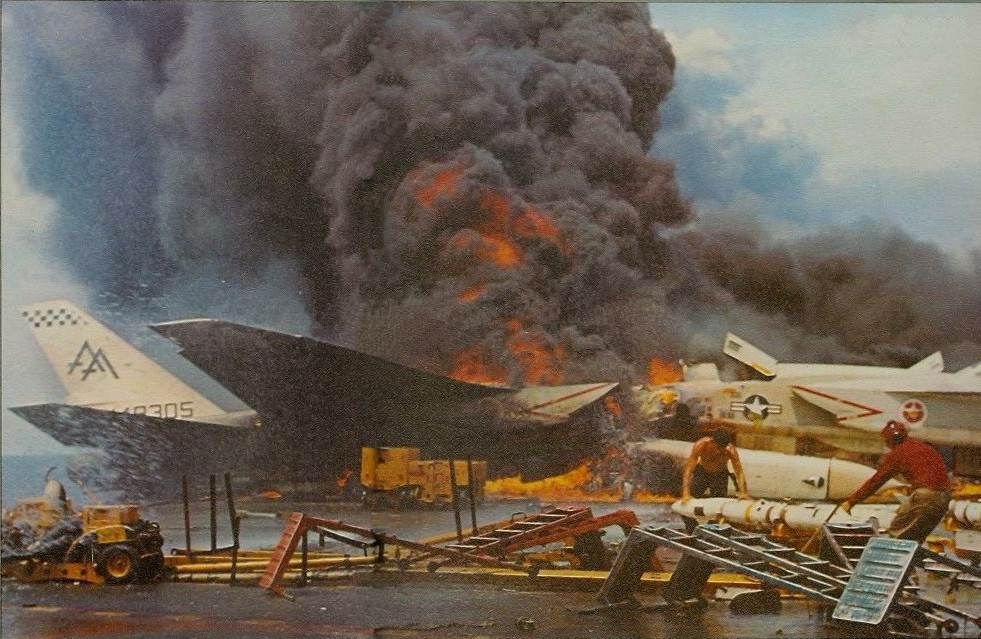 Photo of the fire aboard the U.S. Navy aircraft carrier USS Forrestal (CVA-59) on 29 July 1967 off Vietnam. Two North American RA-5C Vigilante aircraft of heavy reconnaissance squadron RVAH-11 Checkertails are burning on the starboard side aft of the island, while crewmen remove AGM-45 Shrike missiles in the foreground.